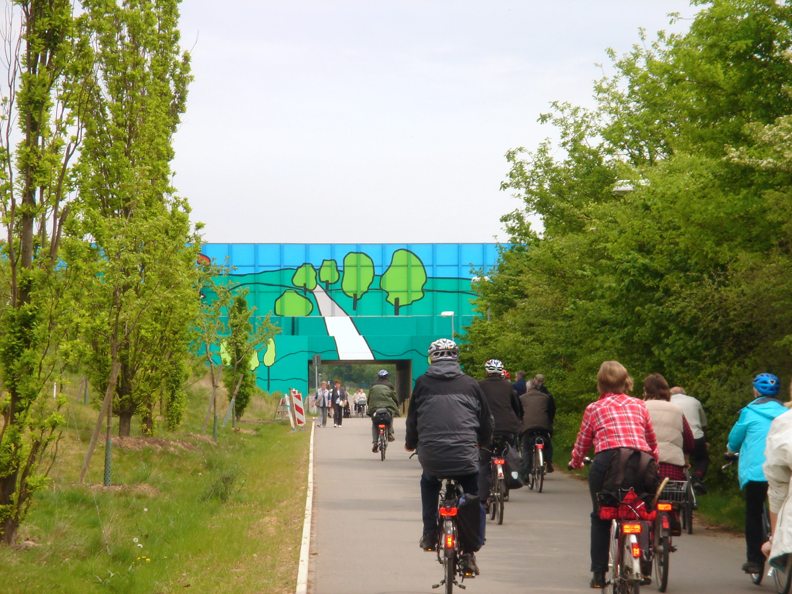 Landschaftspark Belvedere - A1 Durchfahrt